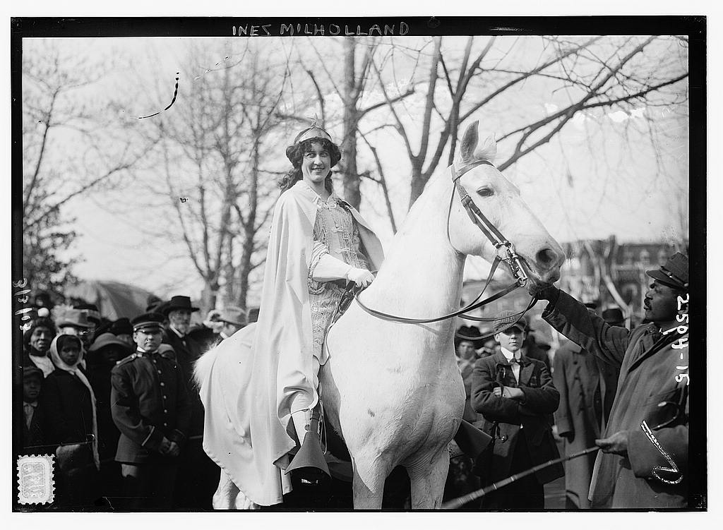 Bain News Service,, publisher. Inez Milholland - Suffrage parade [1913] (date created or published later by Bain) 1 negative : glass ; 5 x 7 in. or smaller. Notes: Title from unverified data provided by the Bain News Service on the negatives or caption cards. Photograph shows Inez Milholland Boissevain, wearing white cape, seated on white horse at the National American Woman Suffrage Association parade, March 3, 1913, Washington, D.C. (Source: Marching for the Vote," by Sheridan Harvey, in American Women, 2001, Forms part of: George Grantham Bain Collection (Library of Congress). Format: Glass negatives. Repository: Library of Congress, Prints and Photographs Division, Washington, D.C. 20540 USA, General information about the Bain Collection is available at Higher resolution image is available (Persistent URL): Call Number: LC-B2- 2504-15